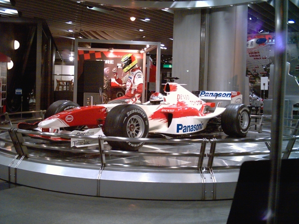 Toyota_TF106B Formula OneAMLUX Showroom of Toyota